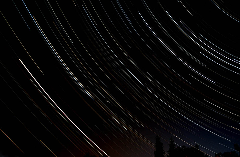 Startrails in Hamburg/Germany 10.07.2005 Shot with a Canon 20D @18mm approx. exposure time 3hours Selim S.